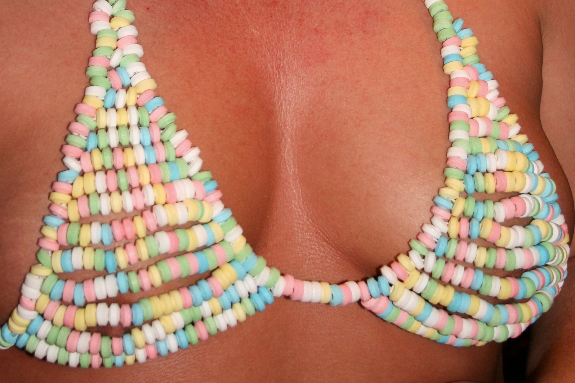 Candy